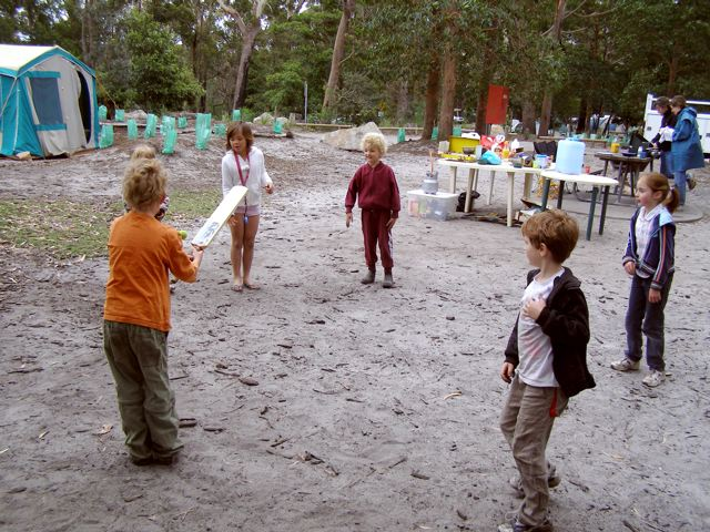 French Cricket being played at Greenpatch, Jervis Bay, October 2006 Photo: D.M. Vernon good